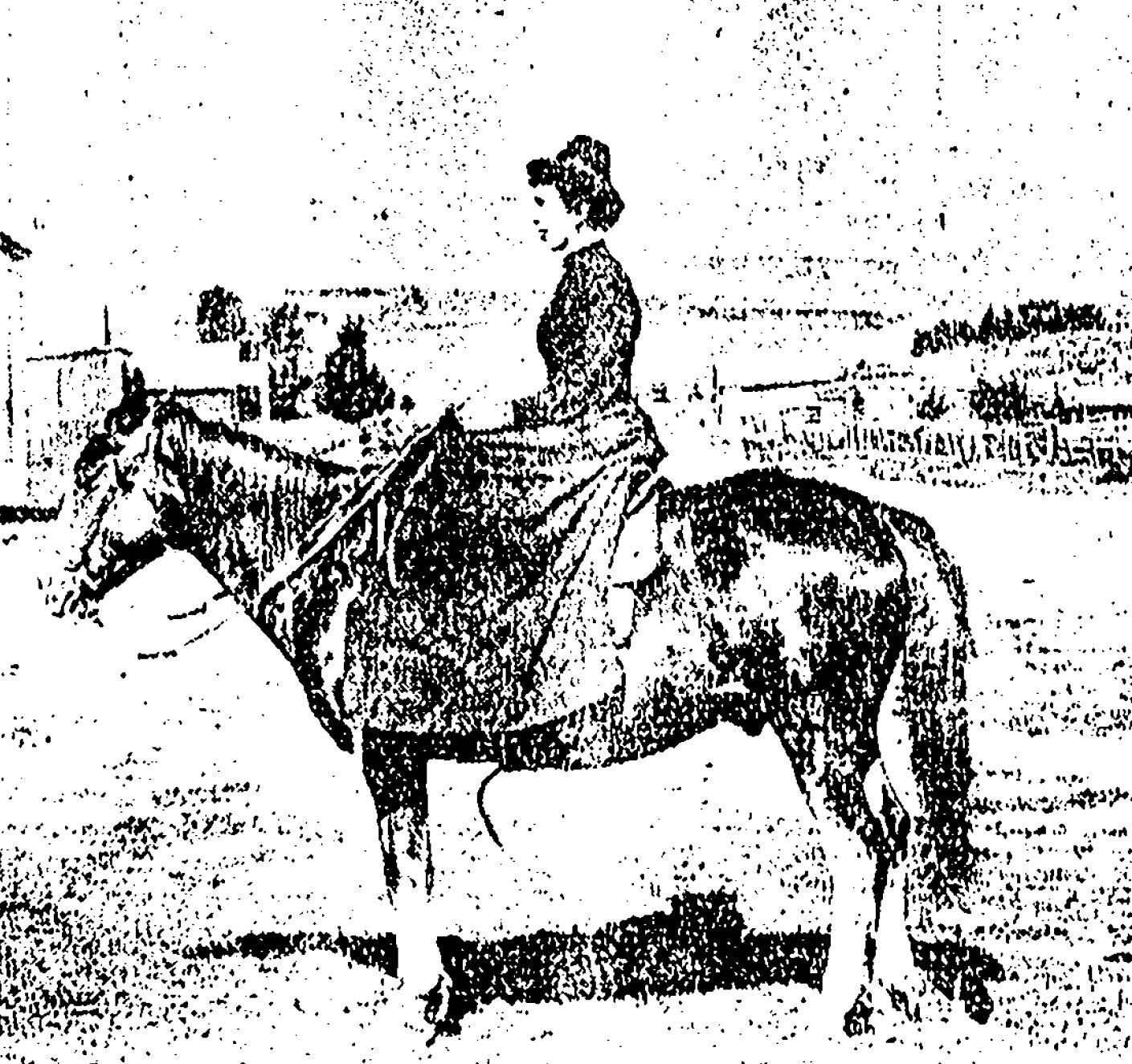 Educator, missionary, lecturer and Whitman College fundraiser Virginia Dox (1851-1941), on her pony on the main street of Oxford, Idaho in 1885. Published in a Hartford Courant profile of Dox in 1928. Dox was born in Wilson, New York, graduated from the Mount Carroll Seminary (today's Shimer College) in 1875, and subsequently worked as a missionary and educator in Oklahoma and the intermountain West; after her health began to fail, she spent the last four decades of her life in Hartford, Connecticut.